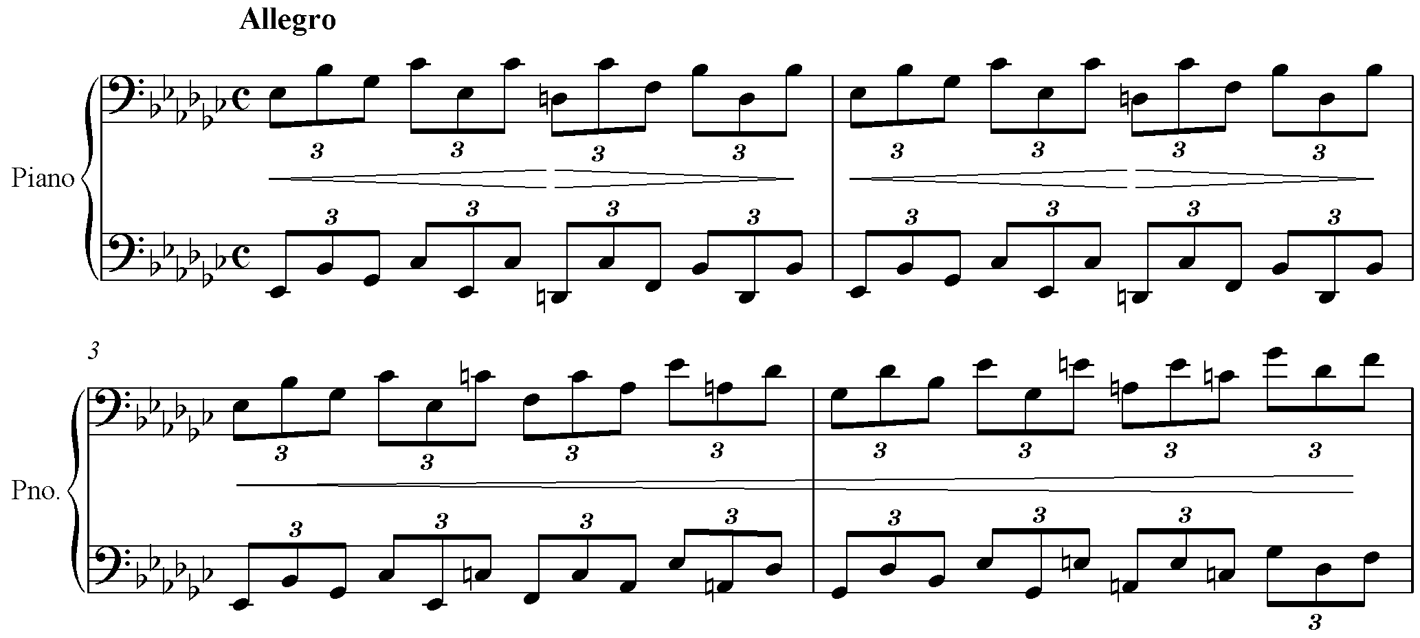 4 first bars of Chopins prelude 14 op. 28